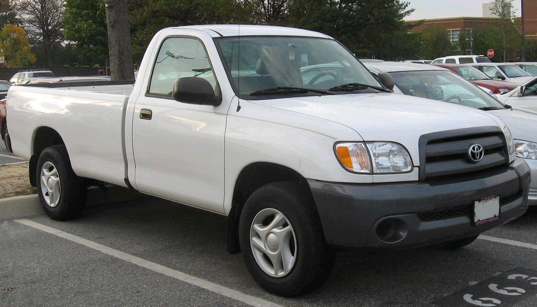 2003-2006 Toyota Tundra photographed in College Park, Maryland, USA.